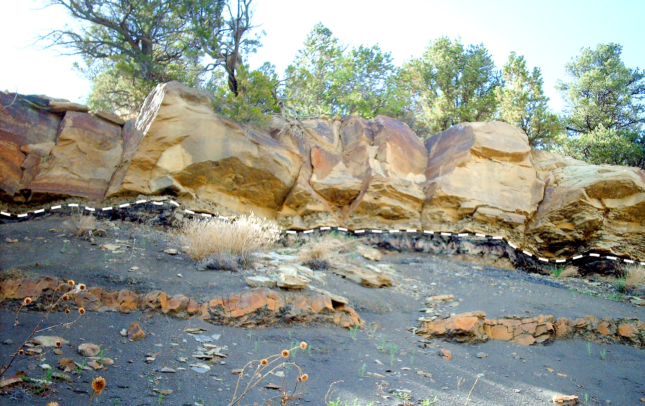 The dashed line is along the Cretaceous-Tertiary boundary (K-T boundary) exposed at Trinidad Lake State Park, U.S. state Colorado.